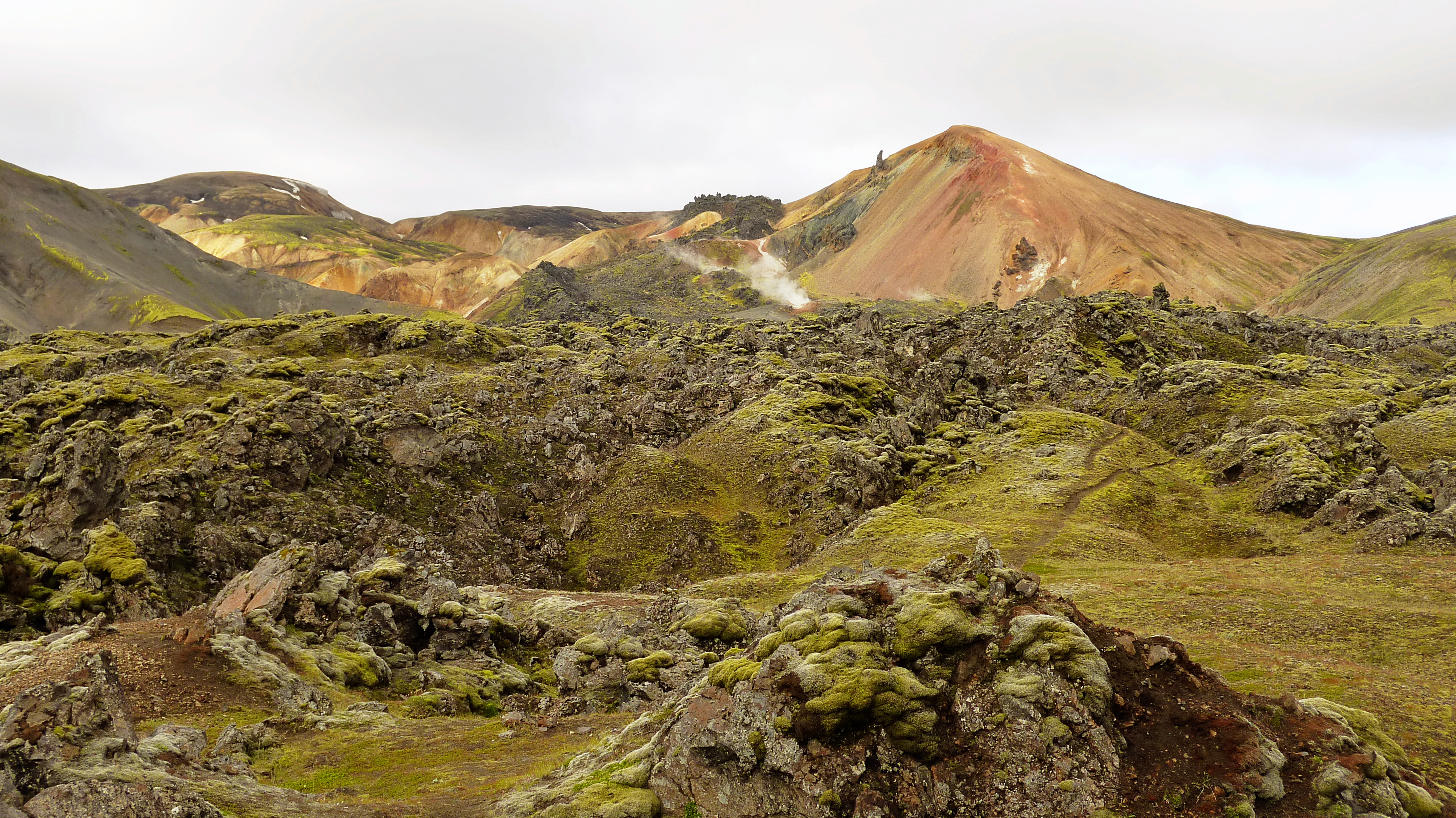 Eastern side of the Brennisteinsalda volcano, with Laugahraun lava flow in the foreground.